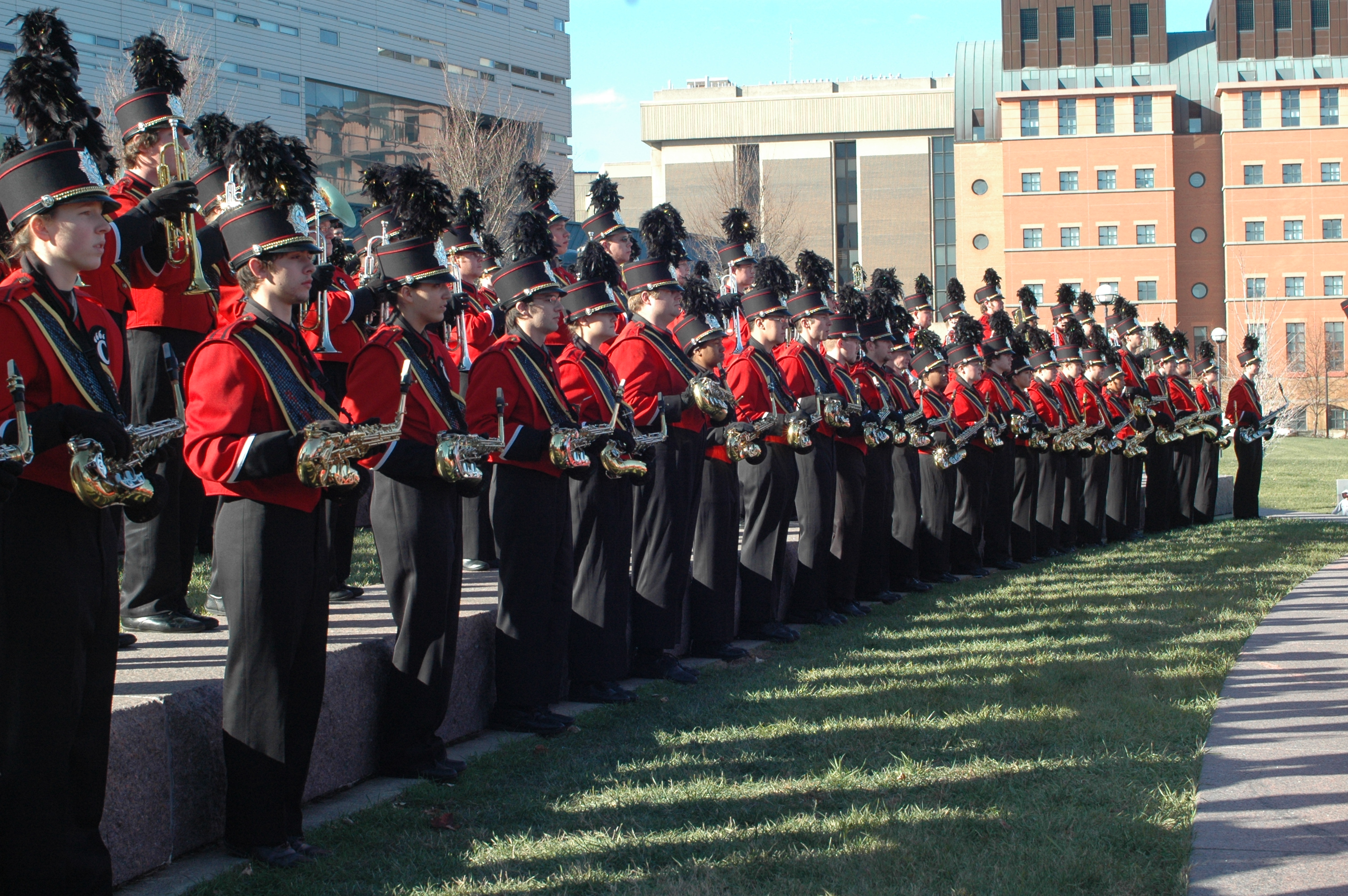 UC Bearcat Band performs before a football game